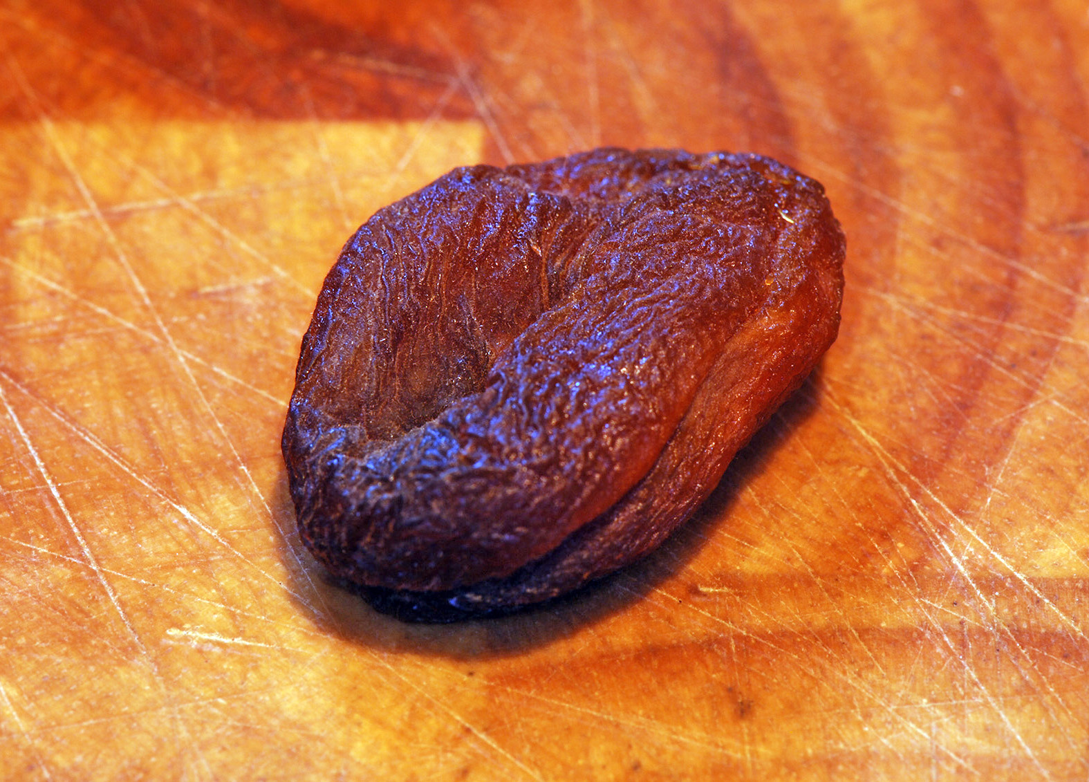 Whole pitted dried organic apricot (Prunus armeniaca), produced in Turkey. Darker colour is because it has not been treated with sulfur dioxide (E220), nor potassium sorbate (E202).